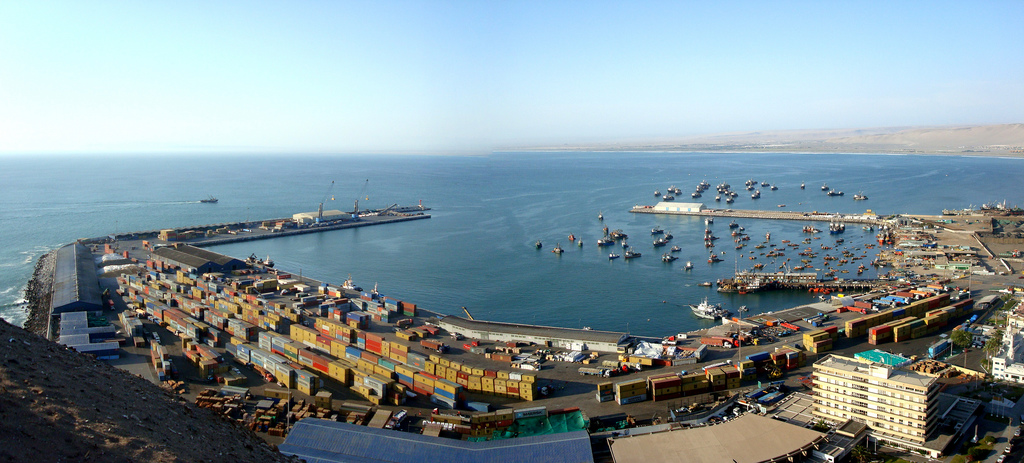 A Panoramic view of the port of Arica, Chile, January 2008.